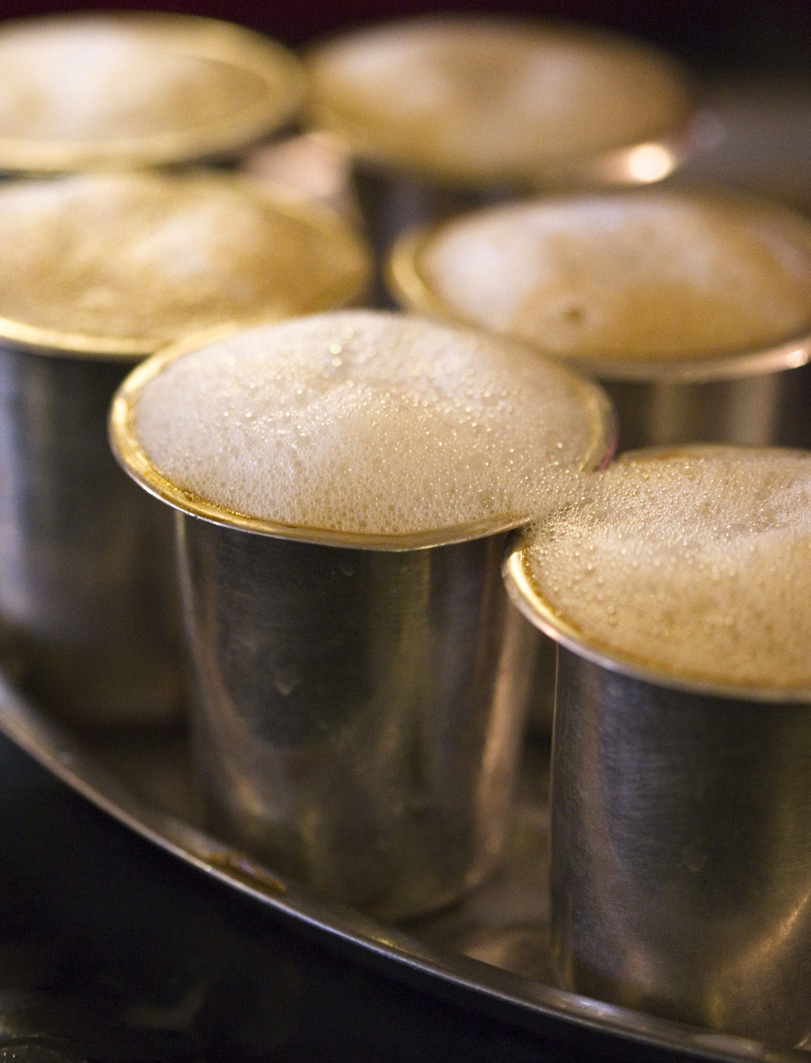 Metal tumblers of South Indian filter coffee at Mavalli Tiffin Room in Bangalore. Original caption: excellent "filter coffee" (made by putting grounds in a small stainless steel "filter" similar to the ones used to make vietnamese coffee. Sweetened and milky, you pour it tumbler to tumbler to cool and aerate it. (I think it's called "pulling" the coffee but someone correct me if I'm wrong please.)